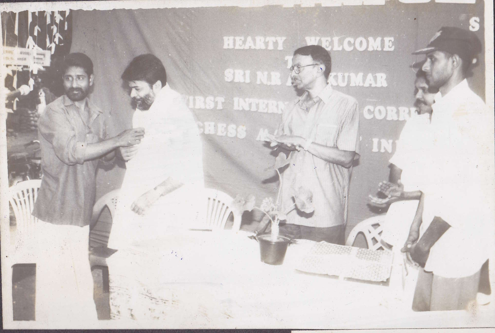 A reception photo to N.R. Anil Kumar, International Correspondence Chess Master by Red star club. Sathish Kalathil, club president arrays Shawl to Anil Kumar.